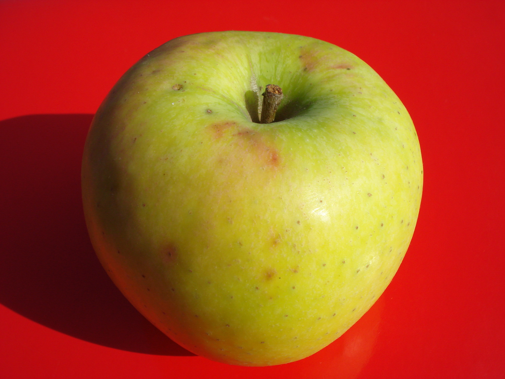 "Mutsu" apple cultivar, grown in Medjimurje County, northern Croatia